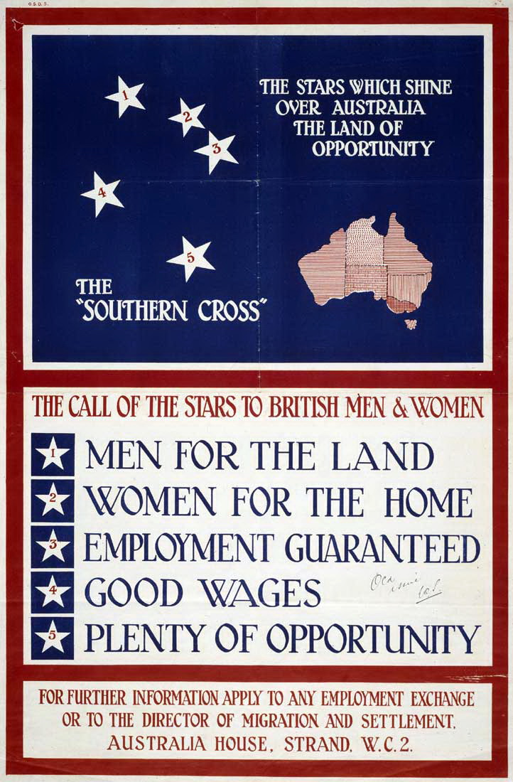 Poster promoting migration to Australia as part of the Migration Assistance Program, 1928 National Archives of Australia, A434, 1949/3/21685